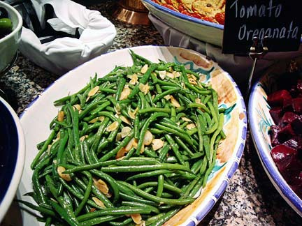 Green beans with toasted almonds. Also known as "amandine," almodine is a culinary term indicating a garnish of almonds. Almodine dishes are often sauced with butter then sprinkled with toasted almonds.